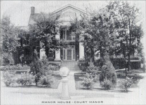 Court Manor photographed in the early 20th century. The Greek Revival manor house was built in 1838 as Mooreland Hall. By the early 20th century the name Court Manor had become associated with the estate. The estate was the home to two winners of the Kentucky Derby. Today the estate is involved in agricultural activities, specifically the breeding of Aberdeen Angus cattle.